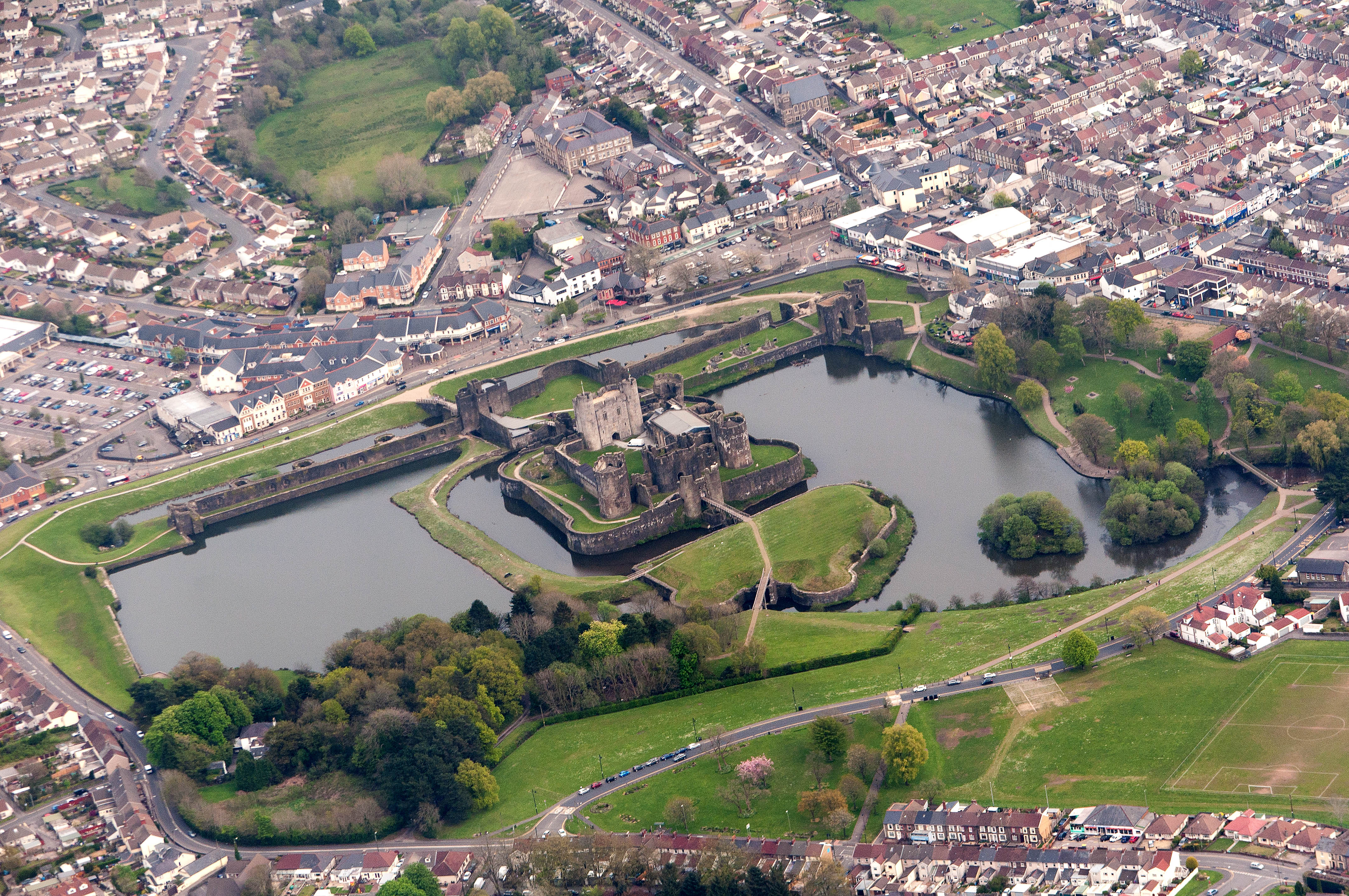 Caerphilly Castle Wikidata has entry Q682601 with data related to this item.